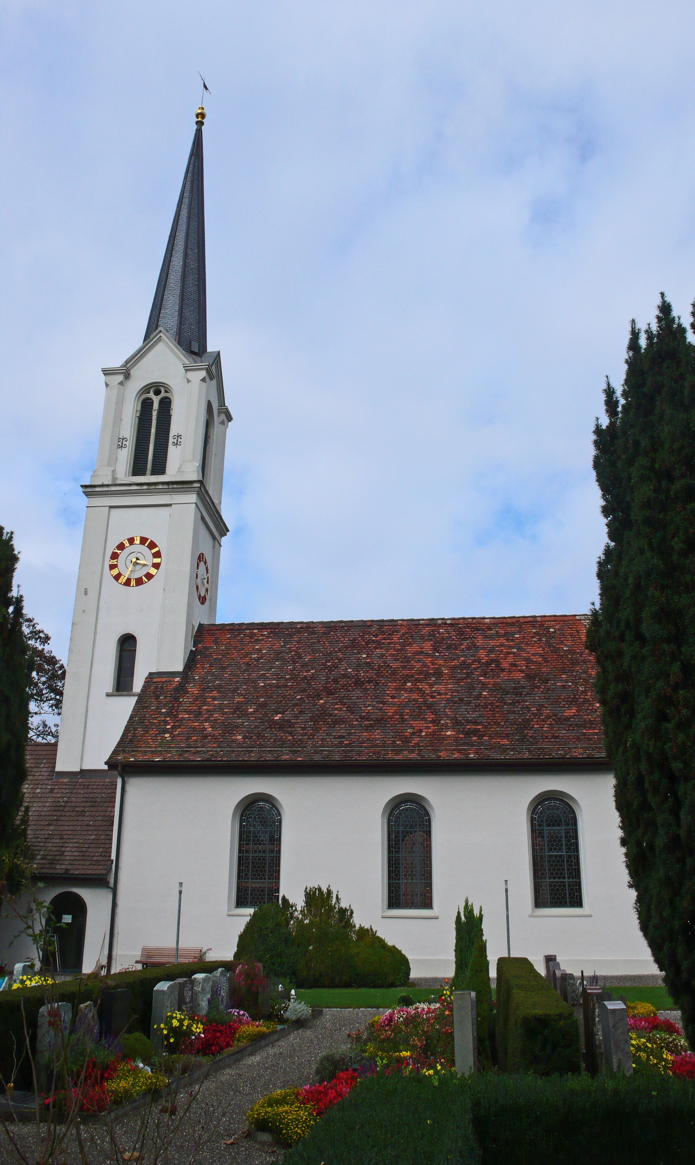 Church of Scherzingen, Switzerland.